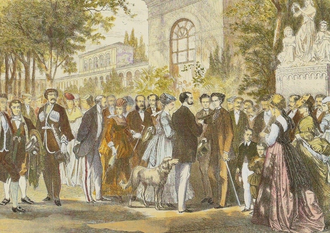 Second „Kaiserkur“ in Bad Kissingen 1868; Bavarian King Ludwig II. and (in front of him) the russian Zar Alexander II. (with his hat in his hand) and other VIP-guests